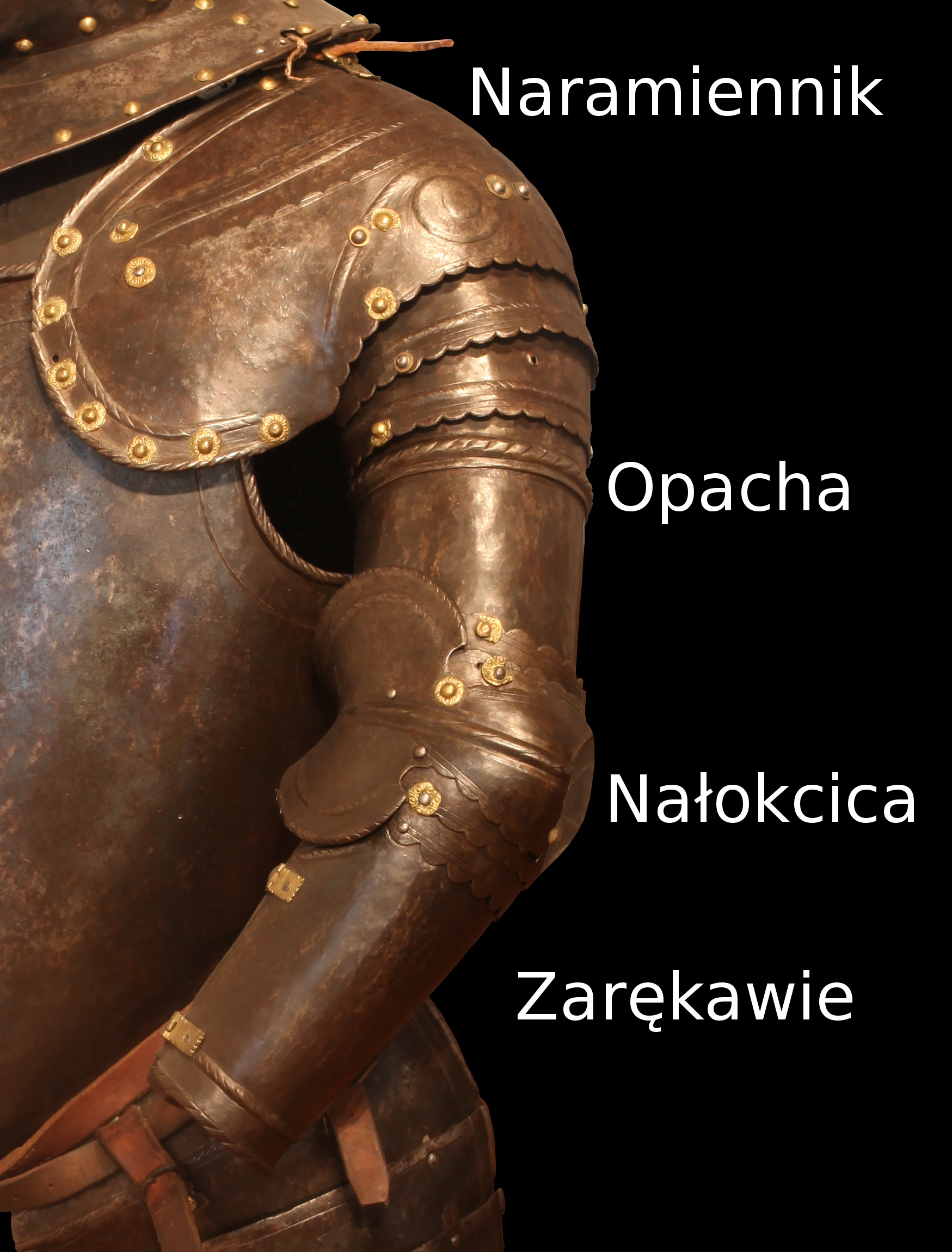 Full vambrace with Polish descriptions of parts